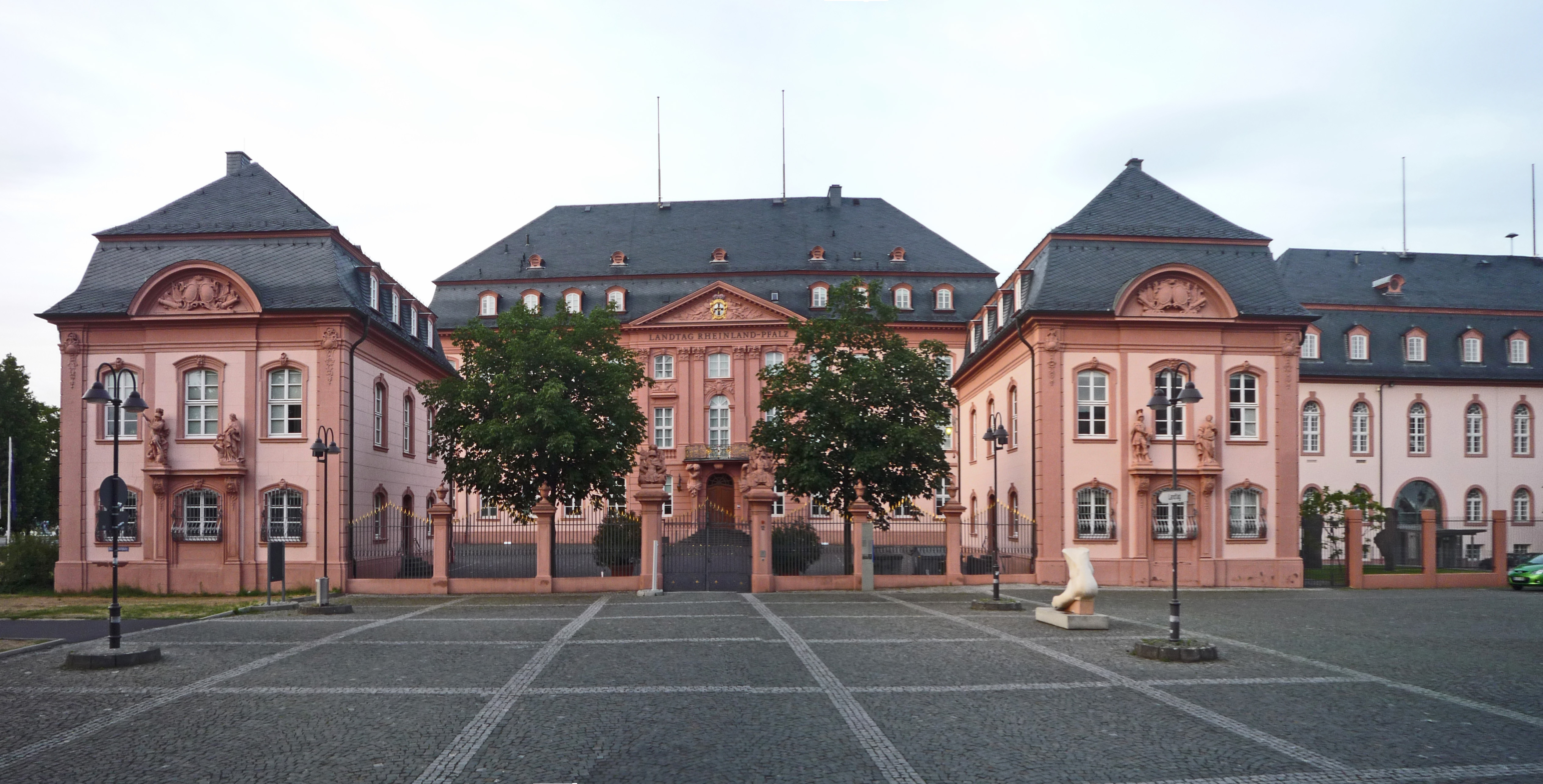 The House of Parlament of Rhineland-Palatinate - view from the city (Deutschhausplatz)